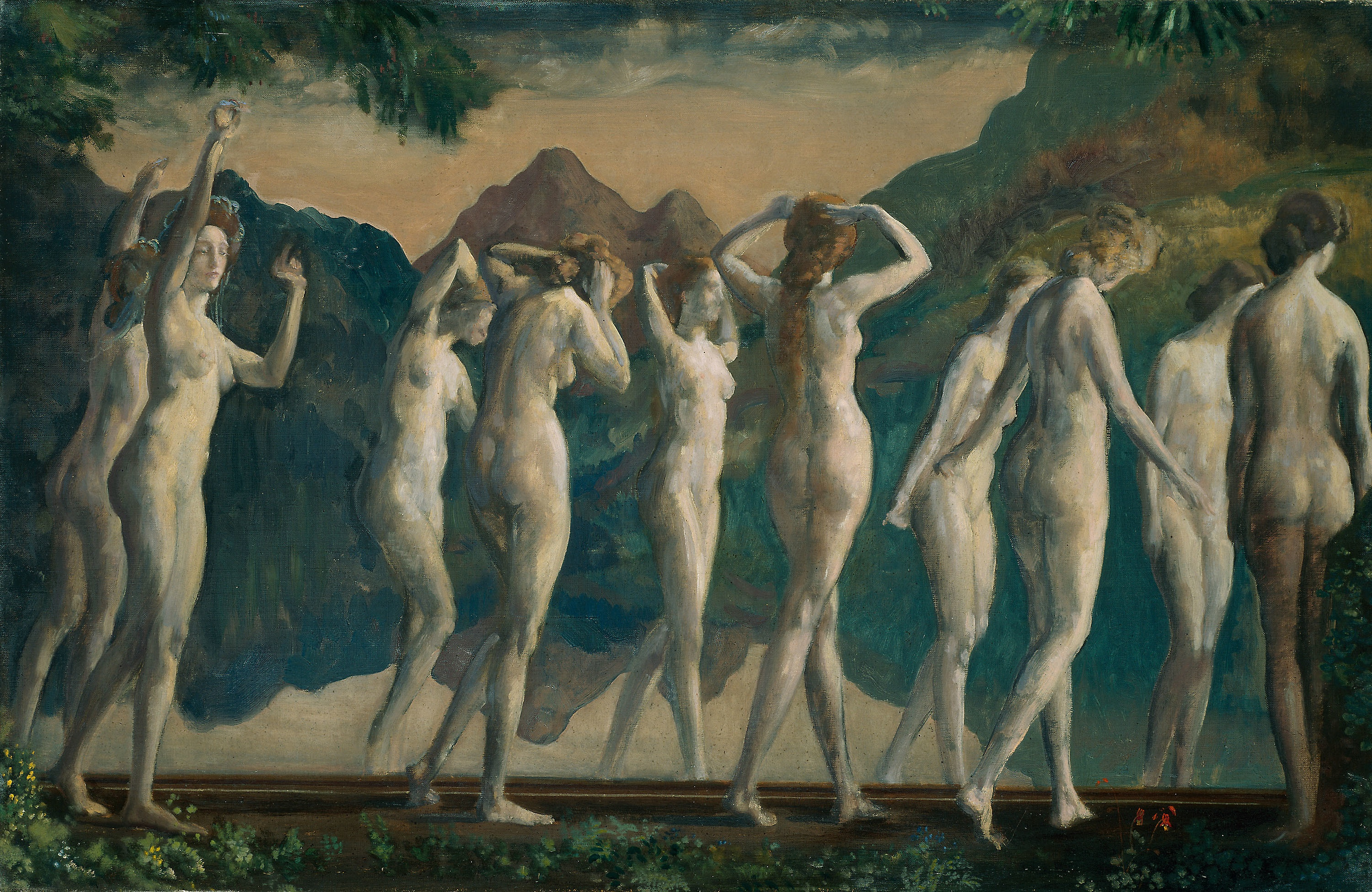 Maya, Mirror of Illusions